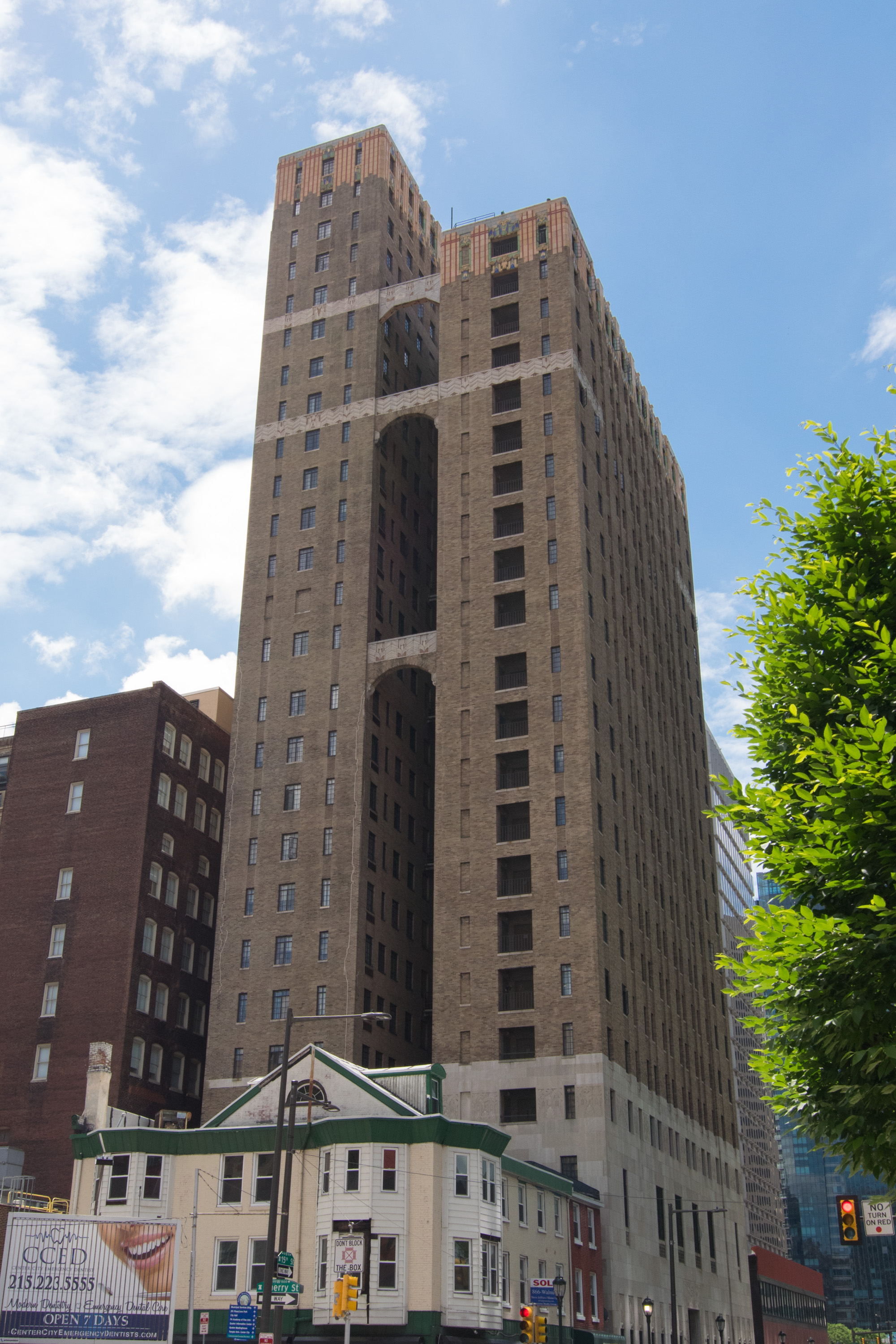 YMCA Philadelphia building